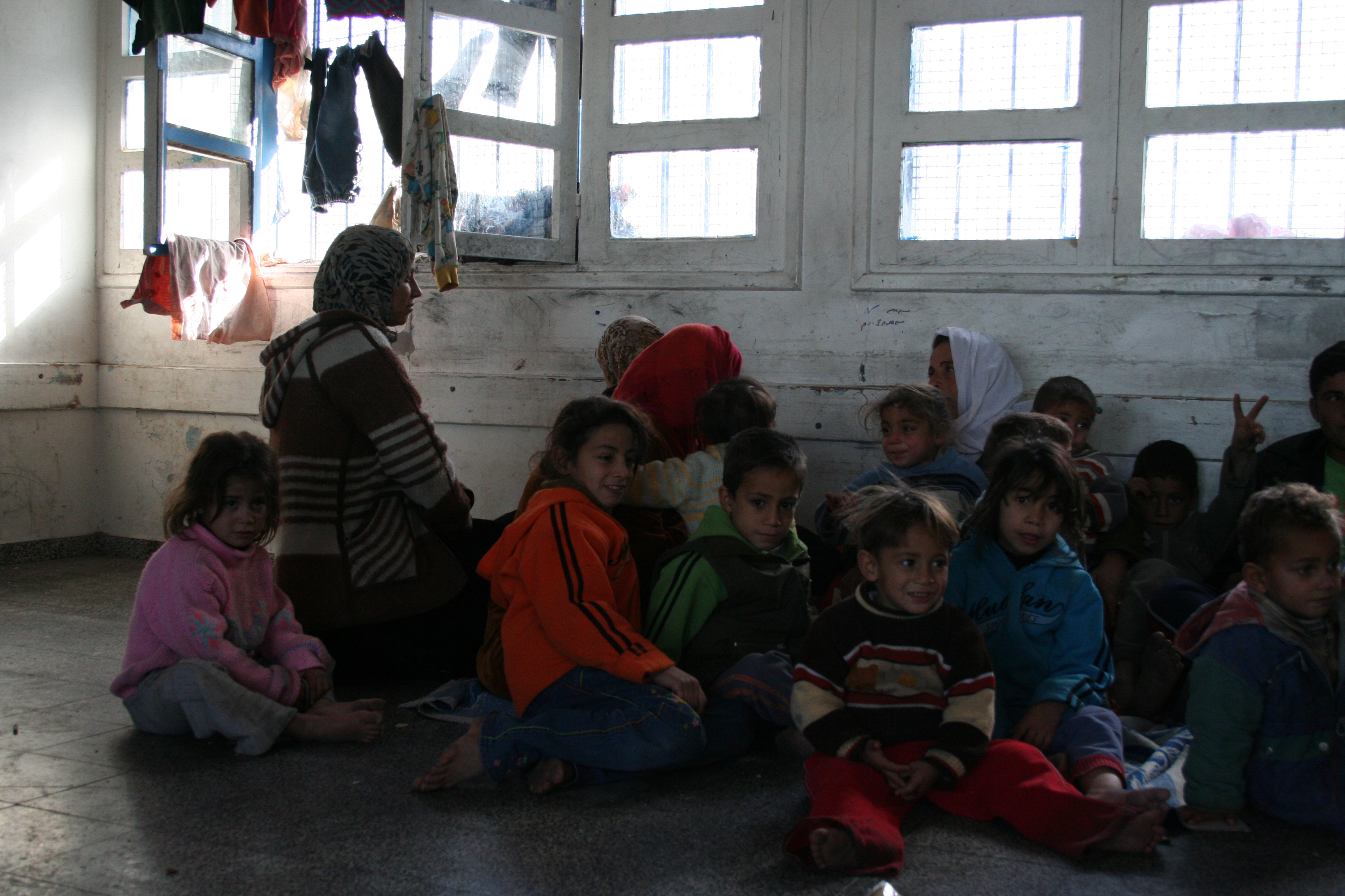 An all too familiar seen for Palestinian children and their families... here seeking refuge at a UN school turned into a makeshift shelter. These people fled the fighting but even at schools like this one were still subjected to Israeli bombardment.